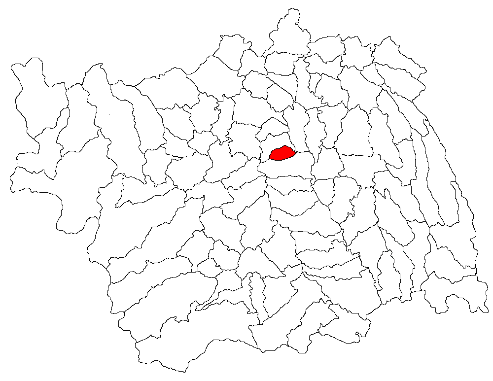 Locator map of the commune of Sărata, Bacău